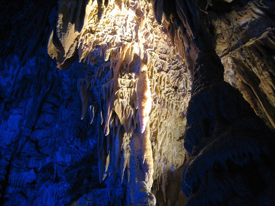 Boxwork, a rare type of cave formation, in Abukuma-do Cave in Takine Town, Tamura City, Fukushima Prefecture, Japan. Picture was taken with a Canon Power Shot SD450 Digital Elph camera and modified using a Paint Shop program on a laptop computer.